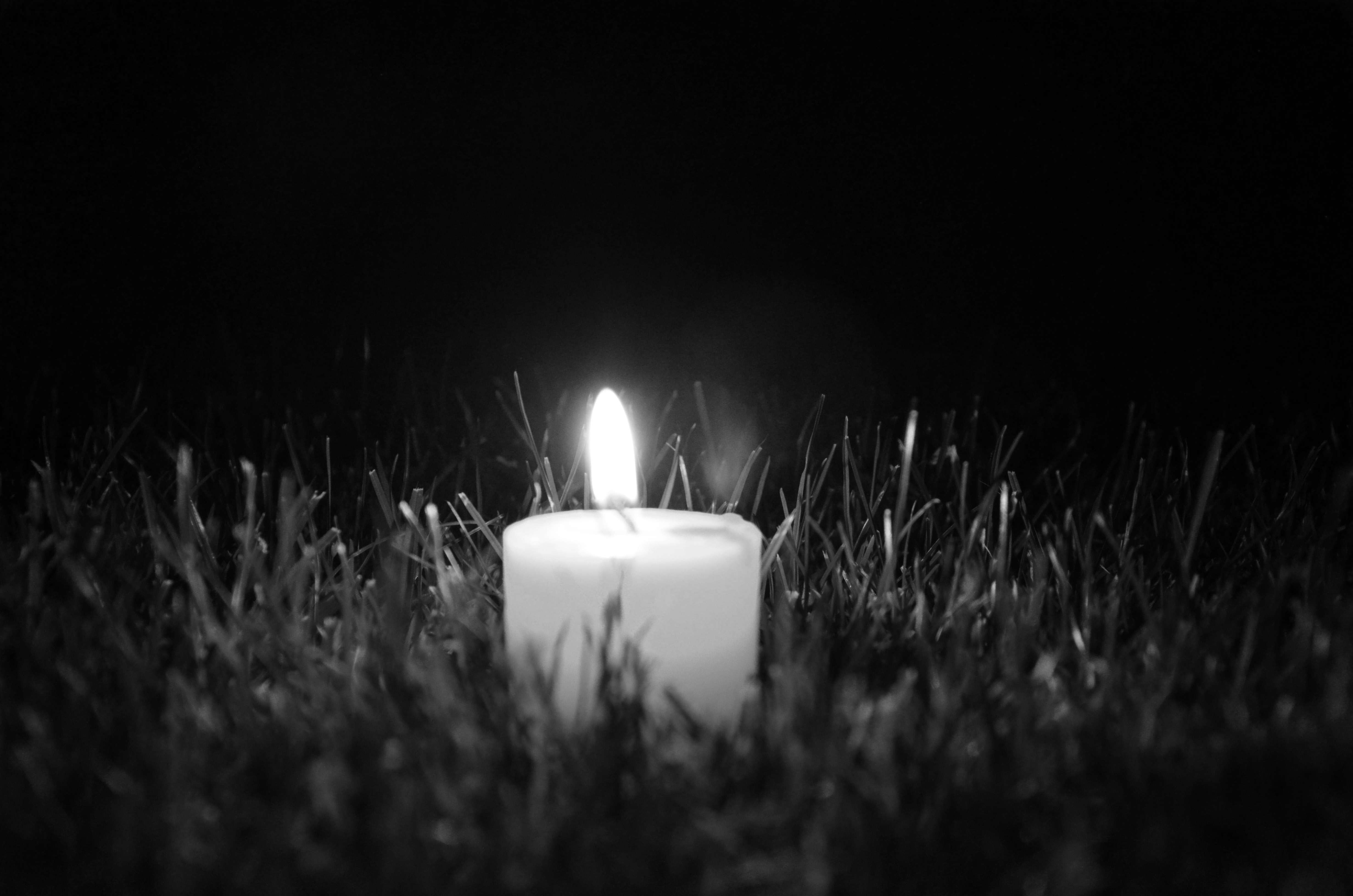 candle